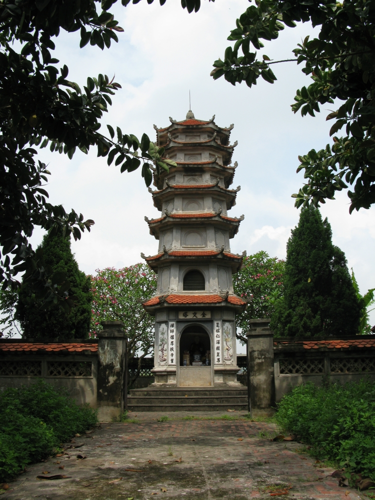 Tower-tomb of Lý Khánh Vân, Đình Bảng commune, Từ Sơn district, Bắc Ninh province, Việt Nam